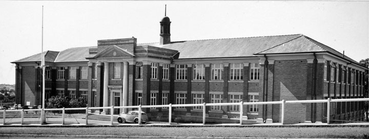 Ithaca Creek State School, Brisbane. (Located at Lugg Street, Bardon, Brisbane.)